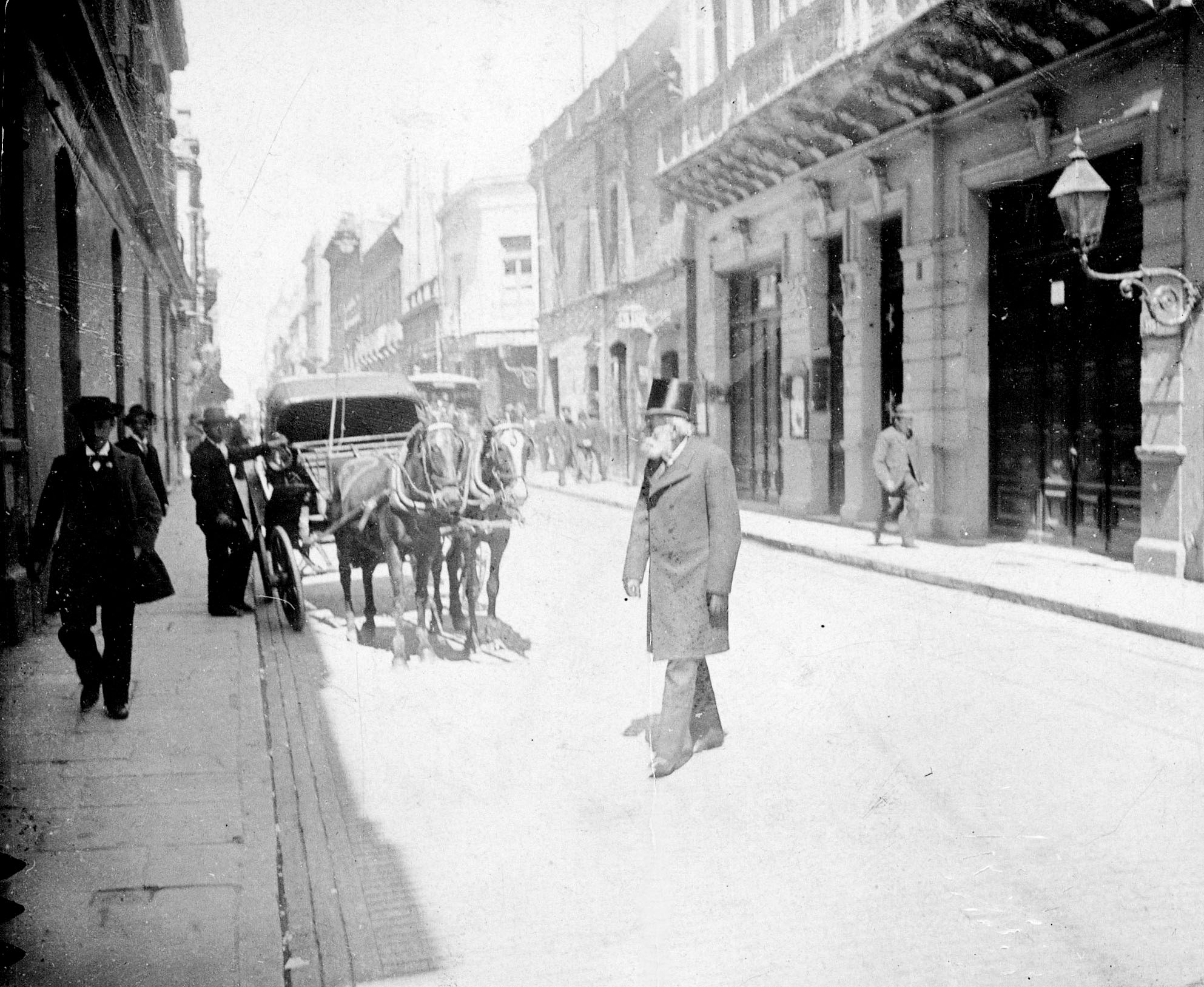 Deputy Carlos Tejedor taking a walk on Buenos Aires streets.